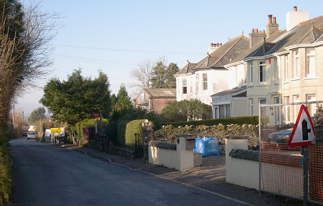 Crapstone Village. Crapstone is quite a modern village and dates from the late 19th century. It takes its name from an old Manor House, Crapstone Barton.